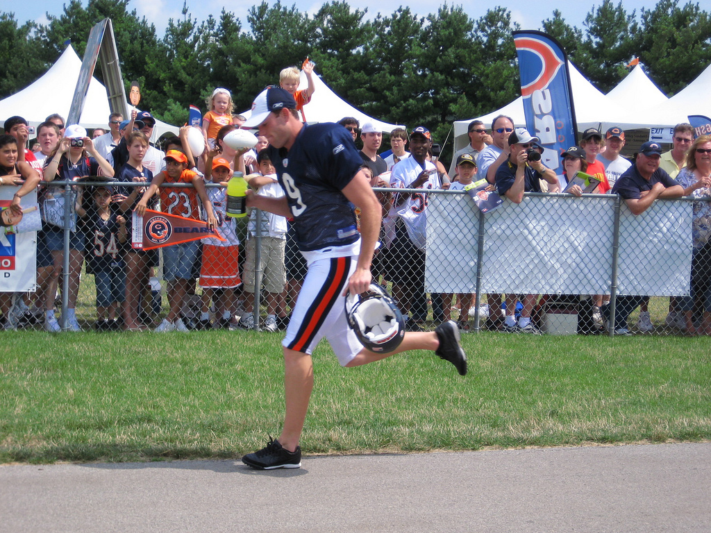 Bears Kicker Robbie Gould warms up at Training Camp.